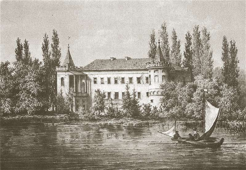 .Siesikai manor, Lithuania 19th century